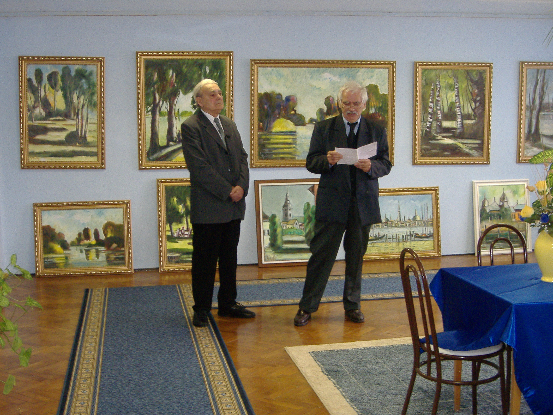 János Szántó (left) with Ferenc Hézső; the two painters open a new exhibition in Szántó Gallery, Makó, Hungary.